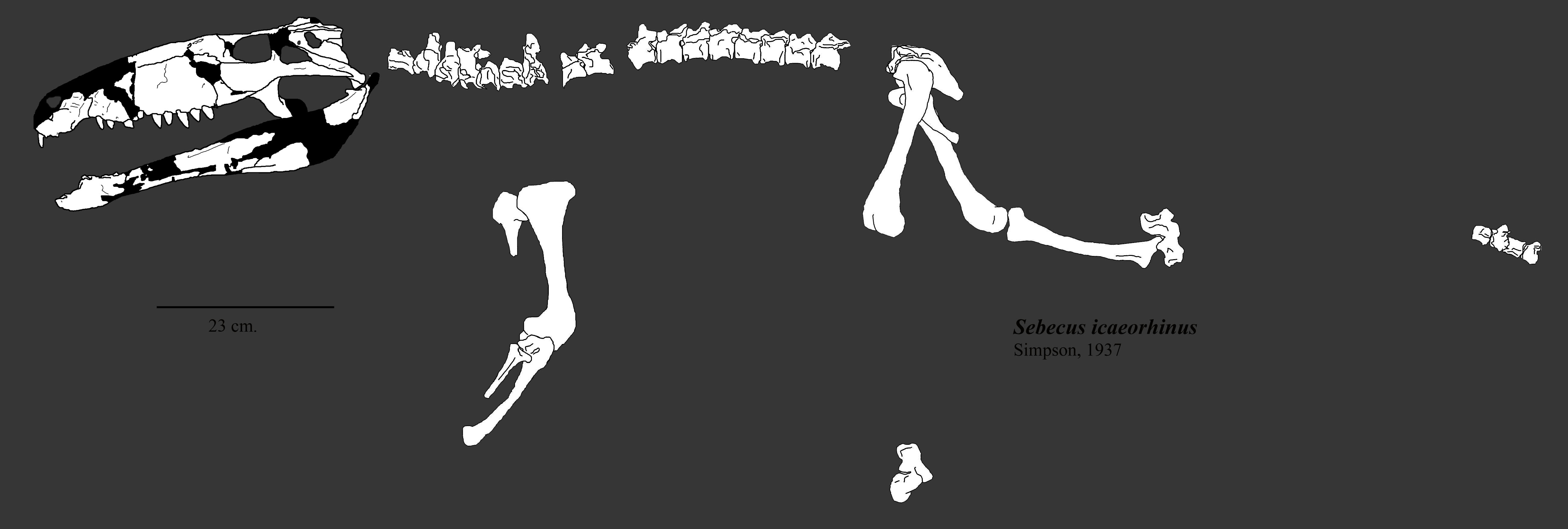 All the fossil elements known for Sebecus icaeorhinus, from the Eocene of Argentina, based in Molnar (2007) and Pol et al (2012).